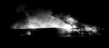 Photographer: unknown